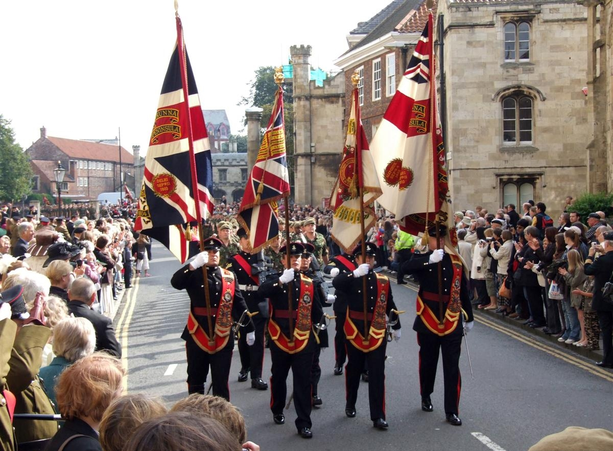 Regulation and Honorary Colours of the 3rd Batallion Yorkshire Regiment (Duke of Wellington's) at York Minster